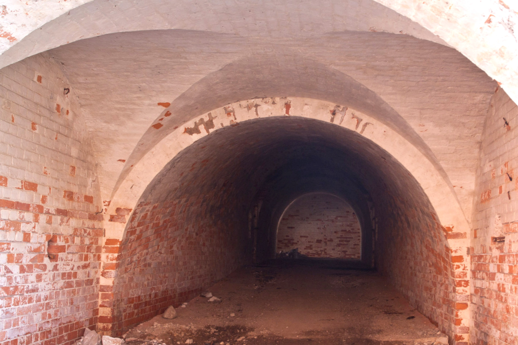 Inside the powder cellar